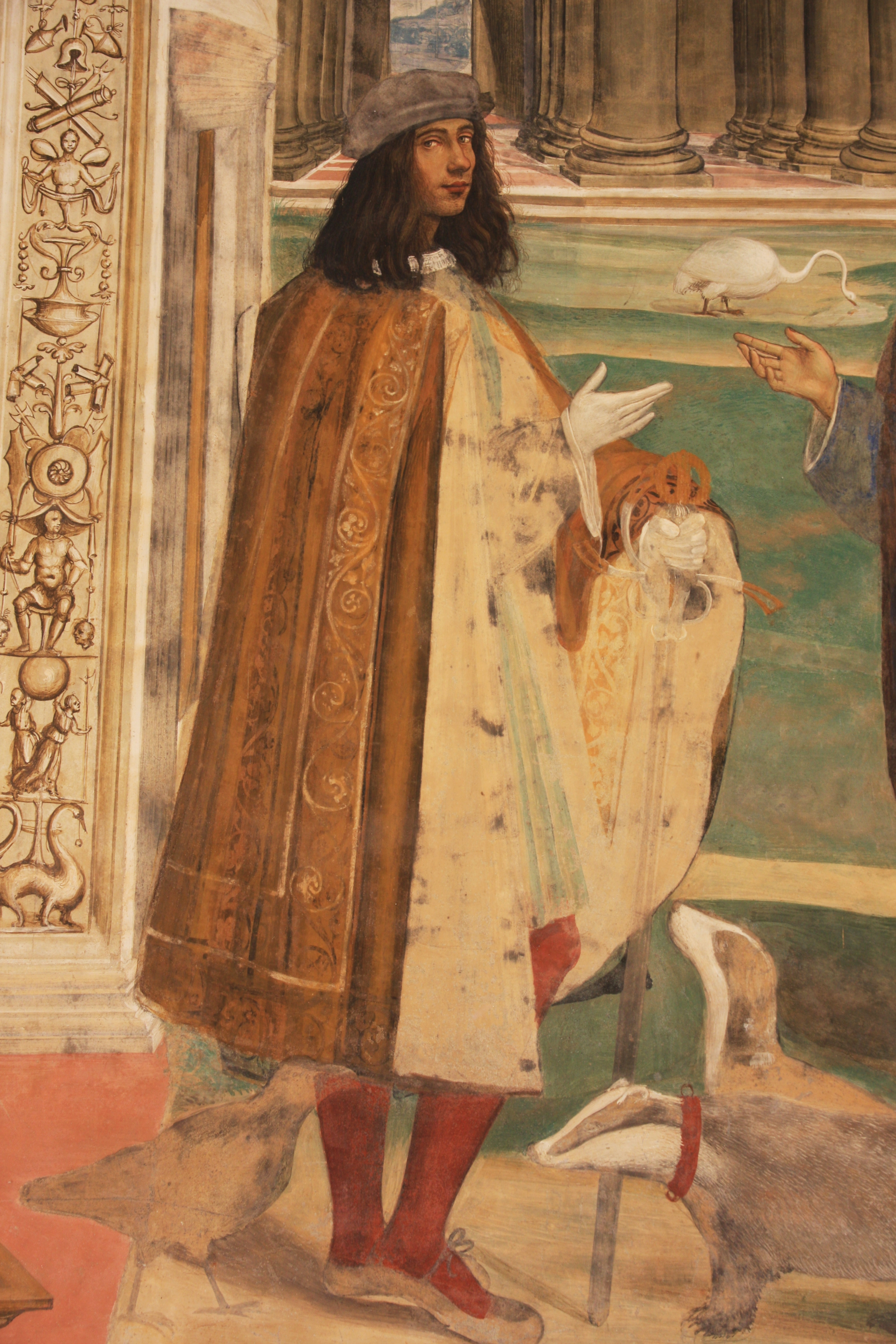 Detail from a Sodoma-Fresco in the Monte Oliveto Monastery (Abbazia de Monte Oliveto Maggiore)